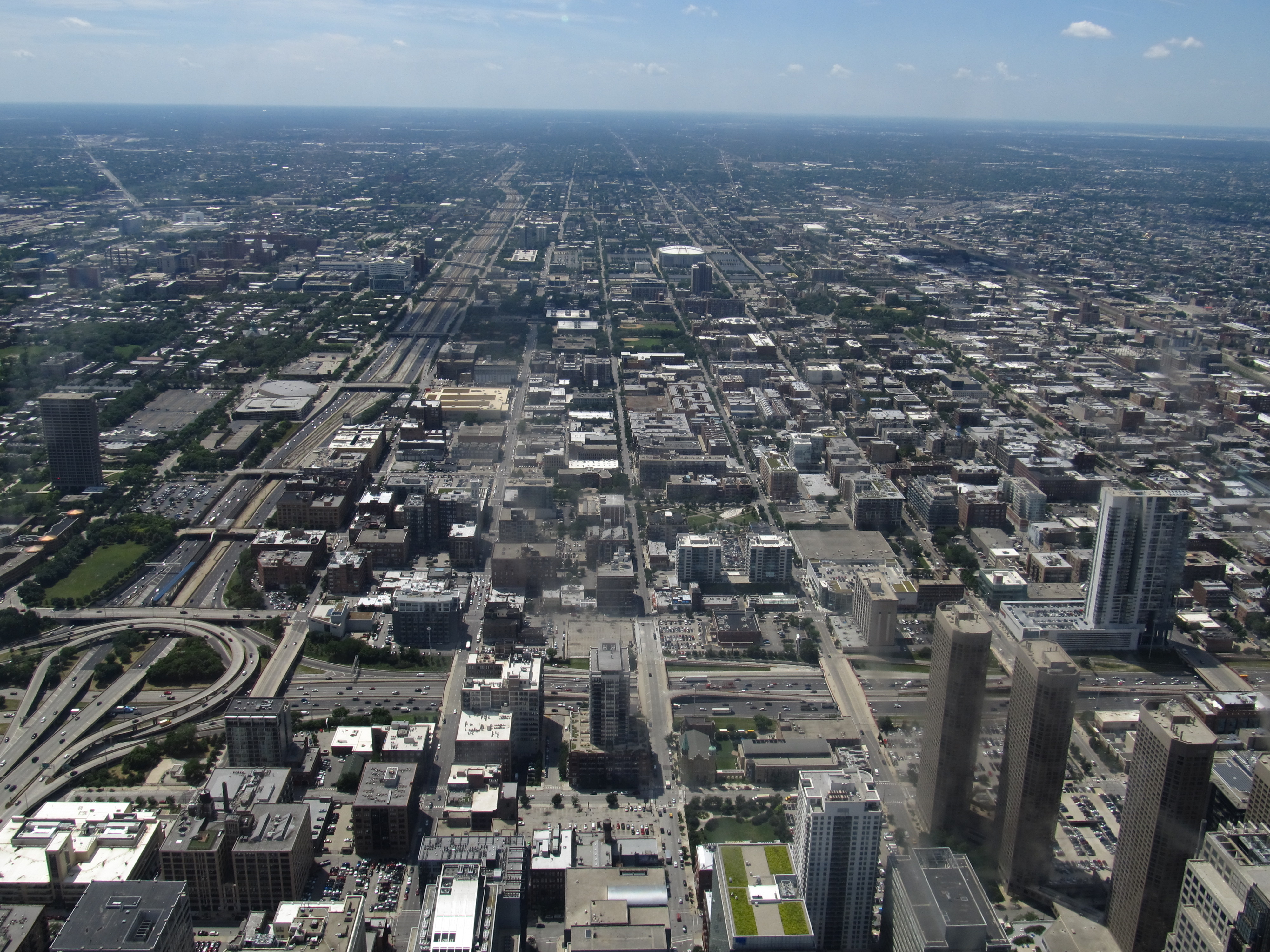 Chicago is the third most populous city in the United States, after New York City and Los Angeles. With 2.7 million residents, it is the most populous city in both the U.S. state of Illinois and the American Midwest. Its metropolitan area, sometimes called Chicagoland, is home to 9.5 million people and is the third-largest in the United States. Chicago is the seat of Cook County, although a small part of the city extends into DuPage County. Chicago was incorporated as a city in 1837, near a portage between the Great Lakes and the Mississippi River watershed, and experienced rapid growth in the mid-nineteenth century. Today, the city is an international hub for finance, commerce, industry, technology, telecommunications, and transportation, with O'Hare International Airport being the second-busiest airport in the world in terms of traffic movements. In 2010, Chicago was listed as an alpha+ global city by the Globalization and World Cities Research Network, and ranks seventh in the world in the 2012 Global Cities Index. As of 2012, Chicago had the third largest gross metropolitan product in the United States, after the New York City and Los Angeles metropolitan areas, at a sum of US$571 billion. In 2012, Chicago hosted 46.37 million international and domestic visitors, an overall visitation record. Chicago's culture includes contributions to the visual arts, novels, film, theater, especially improvisational comedy, and music, particularly blues, soul, and house music. The city has many nicknames, which reflect the impressions and opinions about historical and contemporary Chicago. The best-known include the "Windy City" and "Second City." Chicago has professional sports teams in each of the major professional leagues.